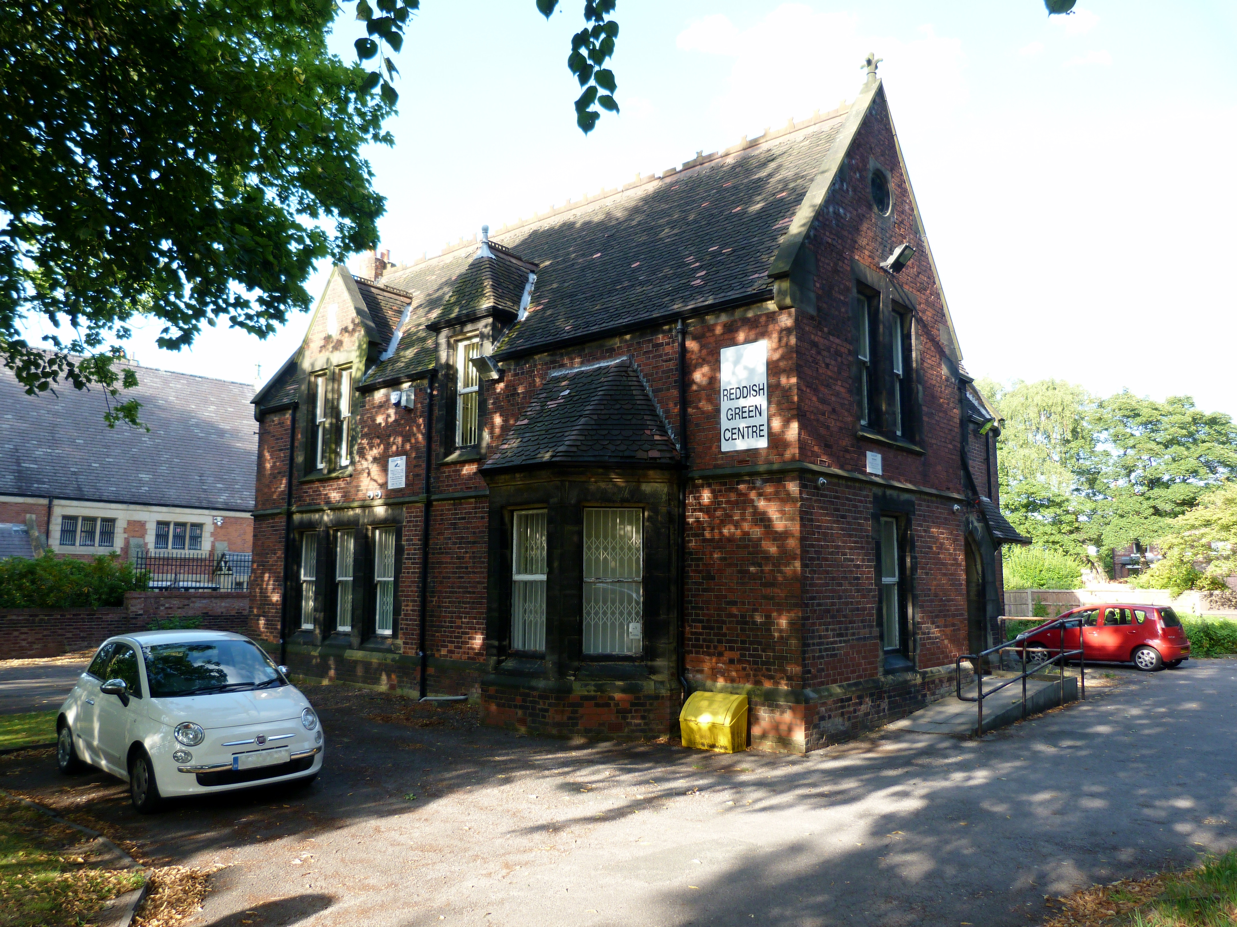 St. Elisabeth's Church rectory, Reddish.